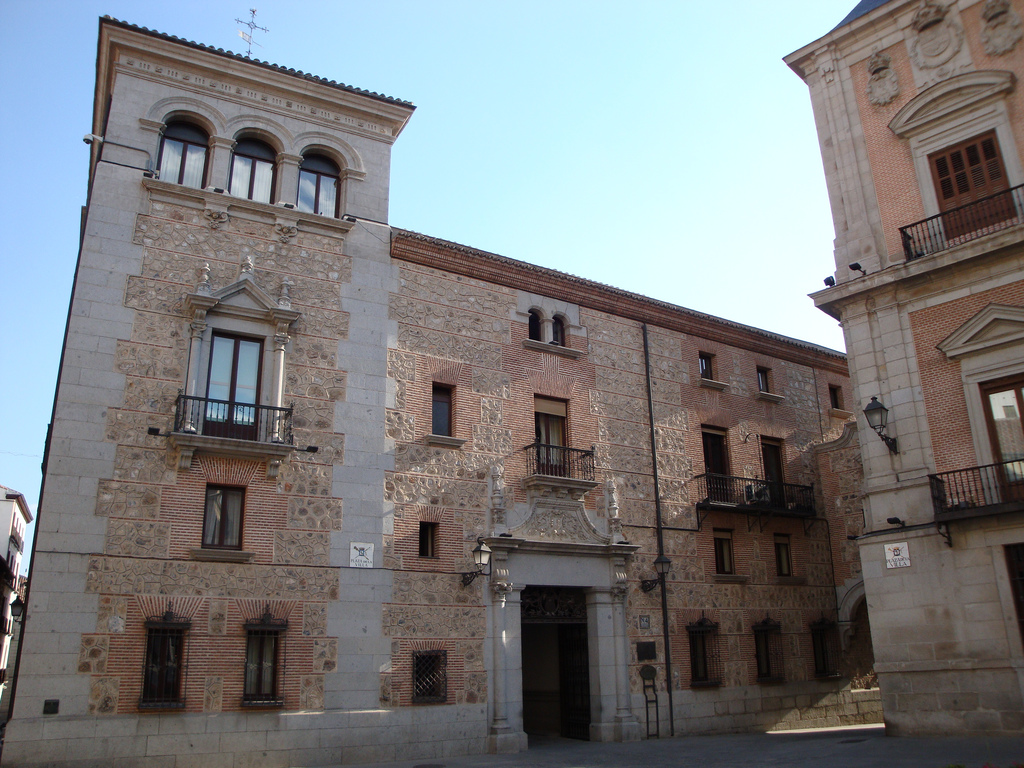 Casa de Cisneros, at the Plaza de la Villa (square) in Madrid (Spain). Built in 1537.